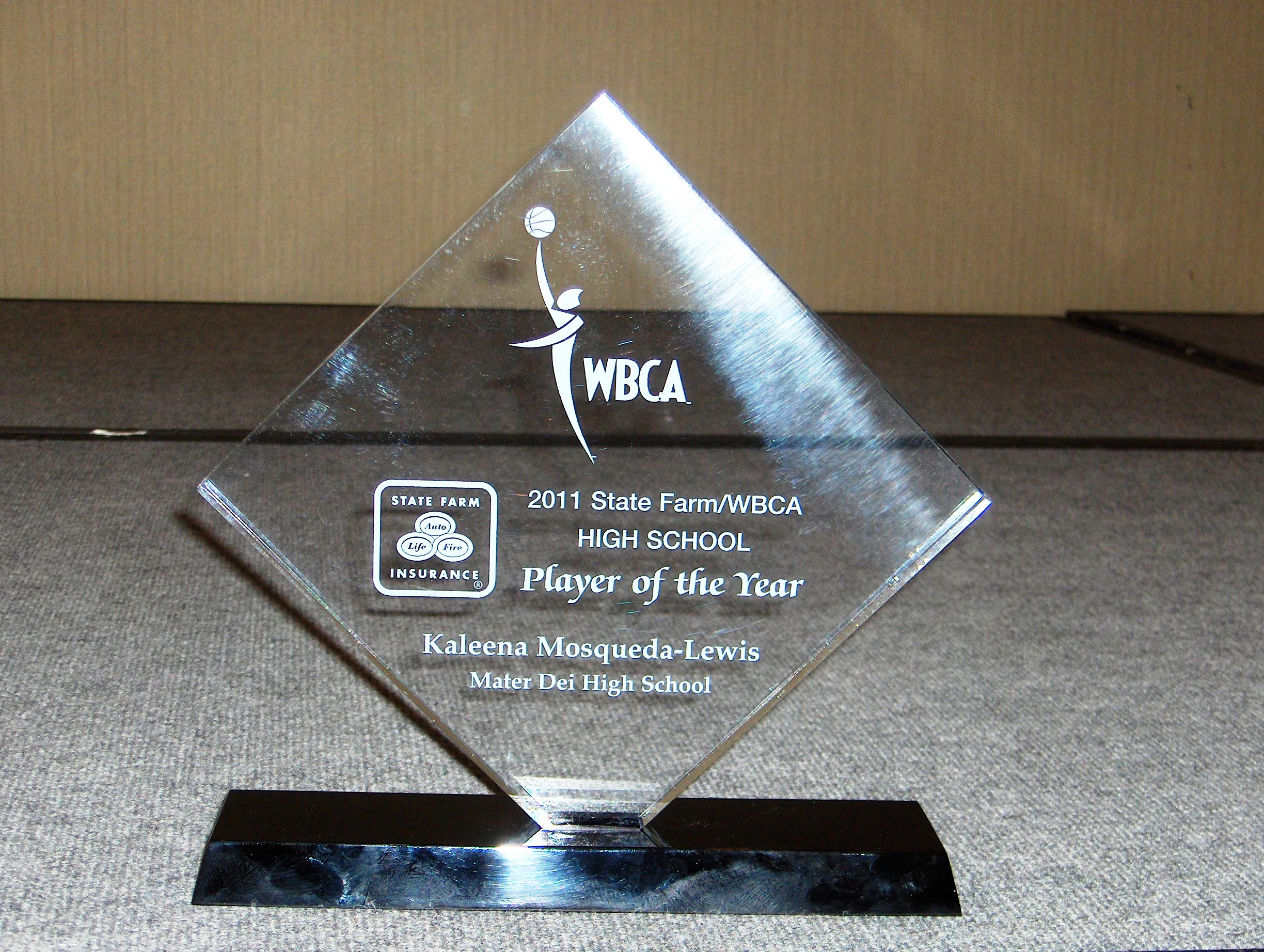 Photo of State Farm/WBCA National Player of the Year award presented to Kaleena Mosqueda-Lewis at the 2011 Women's basketball Coaches Association Convention in Indianapolis, Indiana.